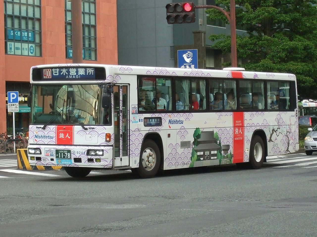 Nishitetsu Bus route No.400 from Hakata Bus Terminal for Amagi Company:Nishi Nippon Railroad Use:transit bus Car license:FOR200 KA 1178 Code:9244 Chassis manufacturer:Nissan Diesel Type:Space_Runner Coachbuilder:Nishinippon Shatai Kogyo Location:in Hakata Ward, Fukuoka City, Fukuoka, Japan.